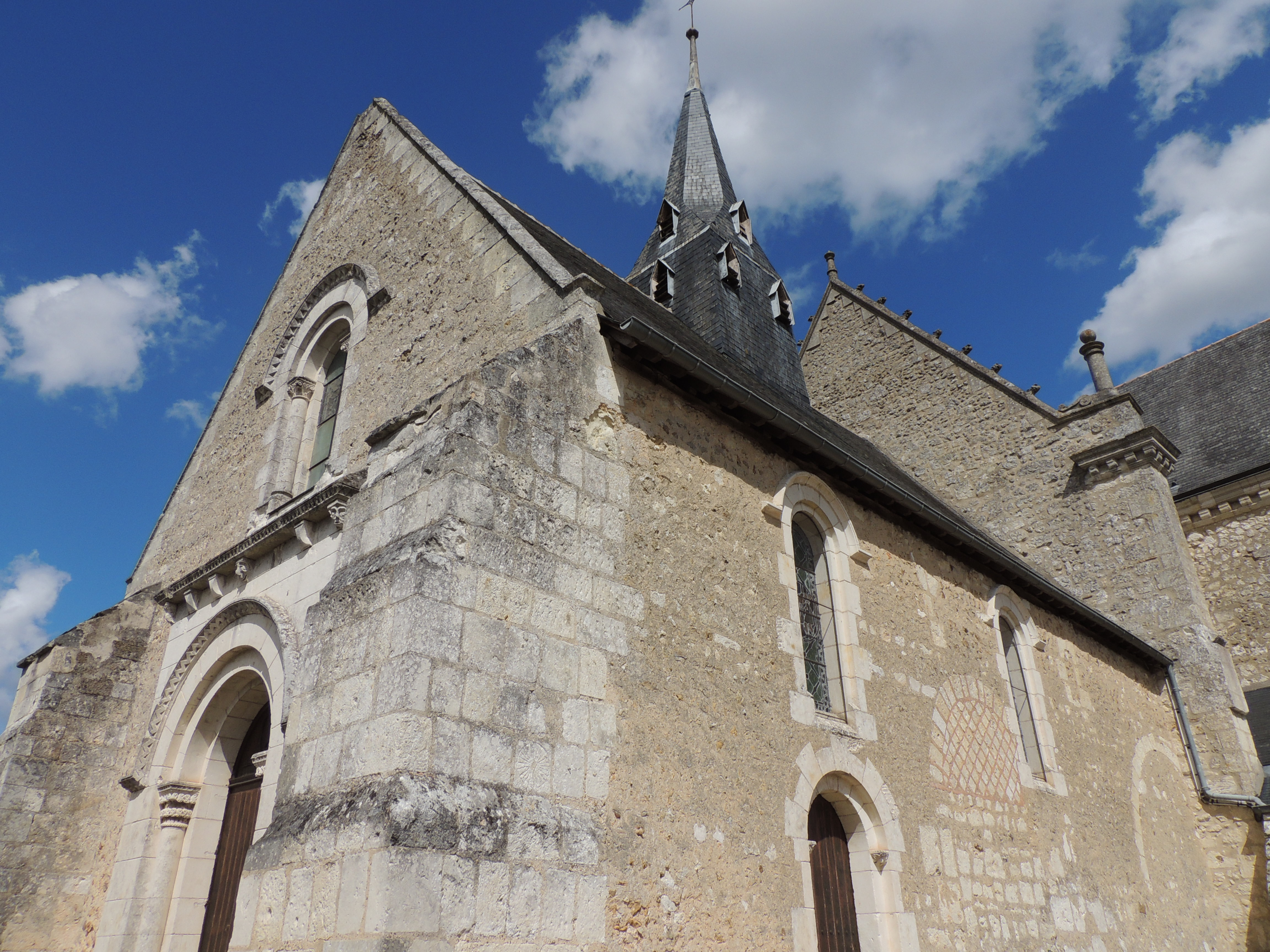 L'église Saint-Martin de la Bruère-sur-Loir